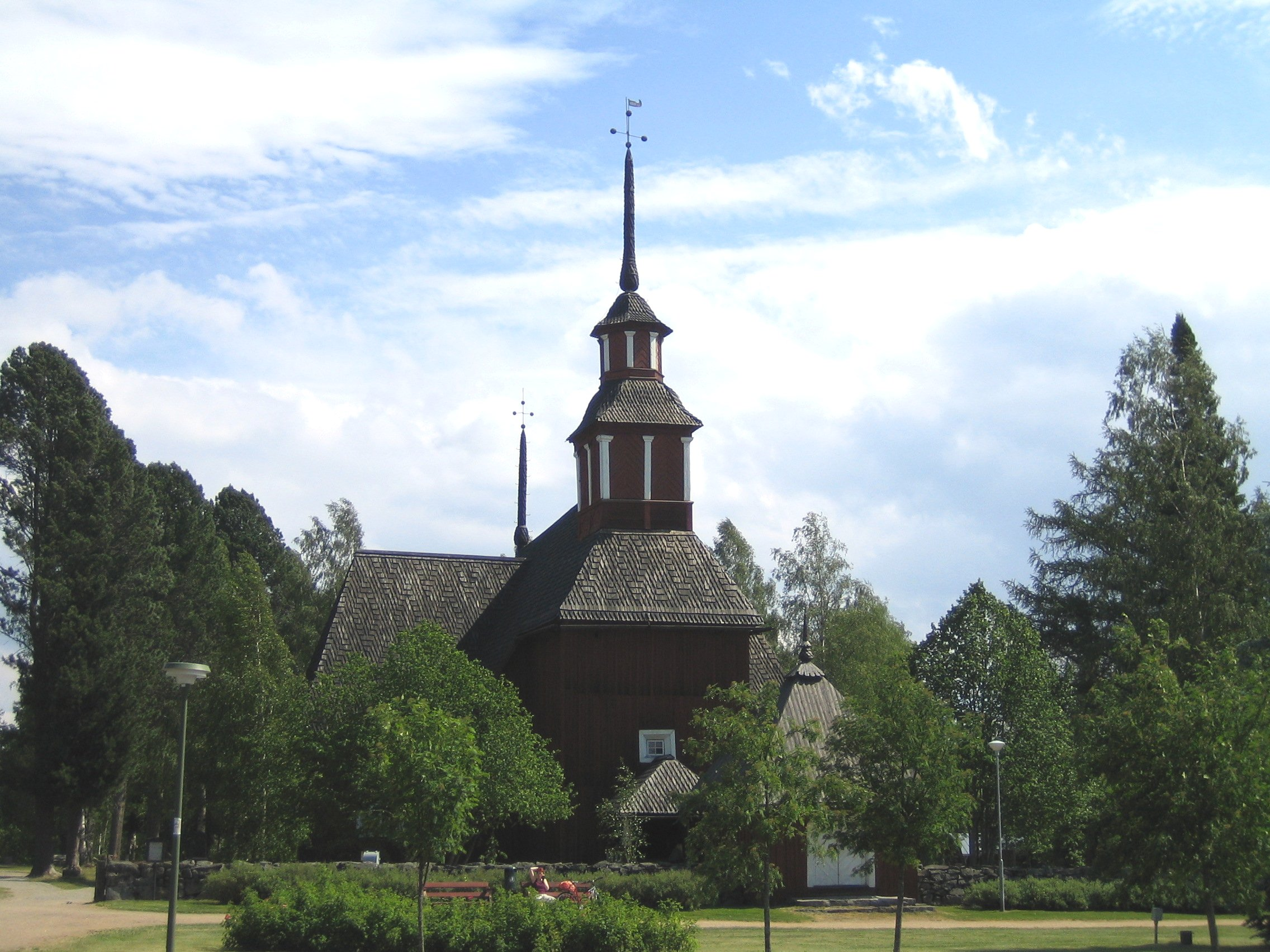 Old Lutheran Church in Keuruu, Finland